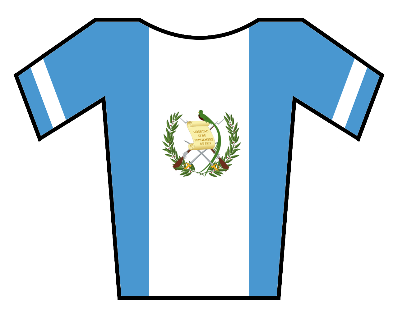 National champion cycling jersey of Guatemala